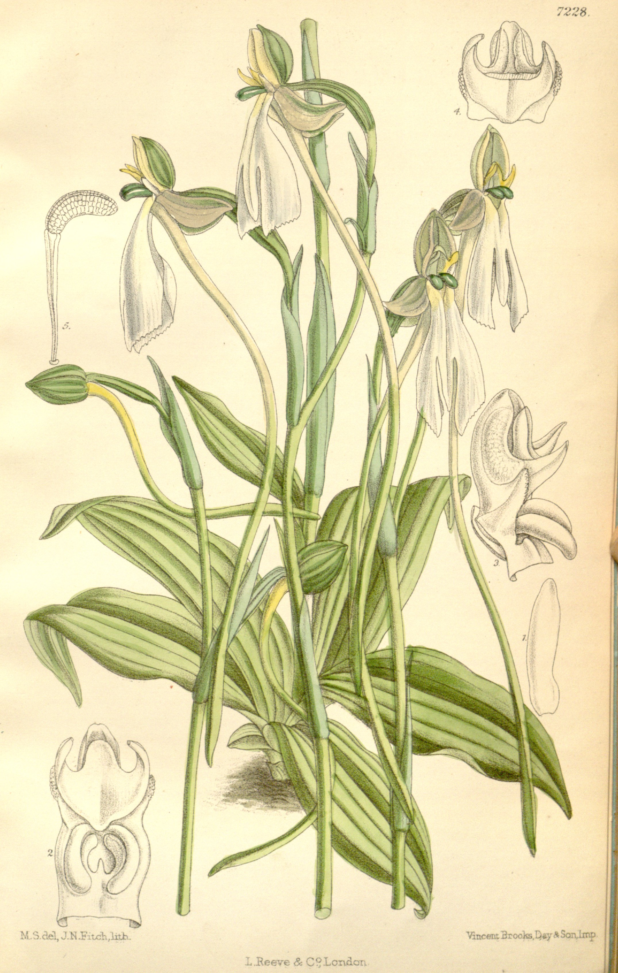 Illustration of Habenaria longicorniculata (as syn. Habenaria longicalcarata, spelled by Hooker as Habenaria longecalcarata)